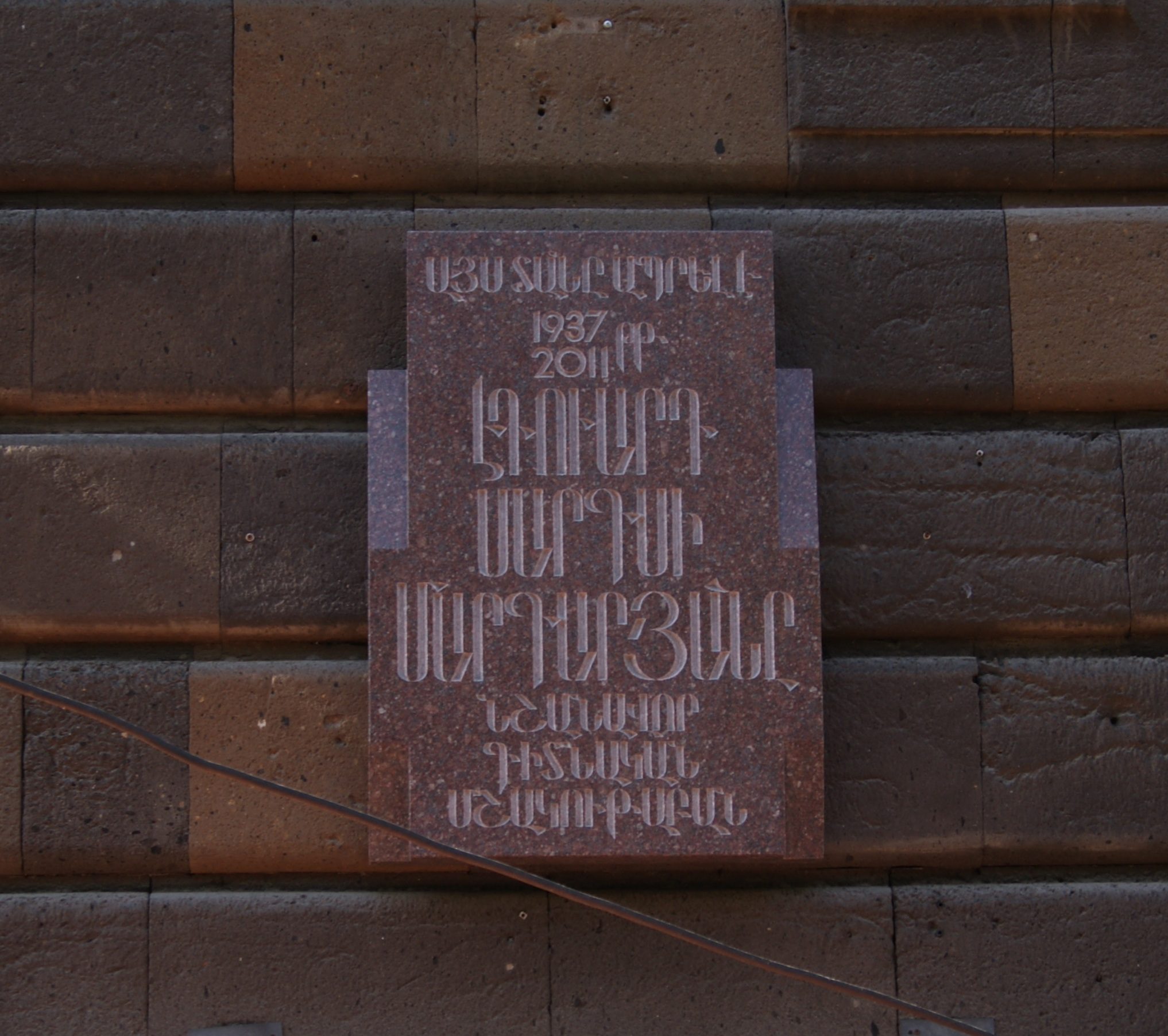 Eduard Margaryan's plaque in Yerevan